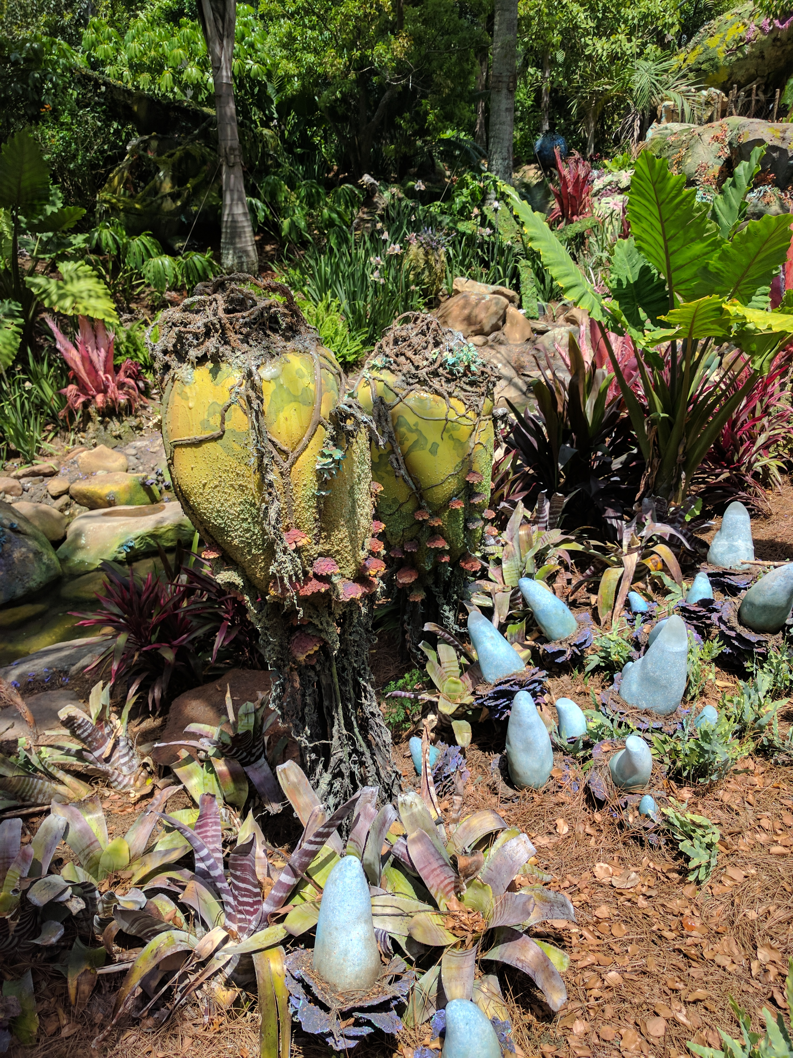 Cast Pongu (Party) at Pandora-The World of Avatar